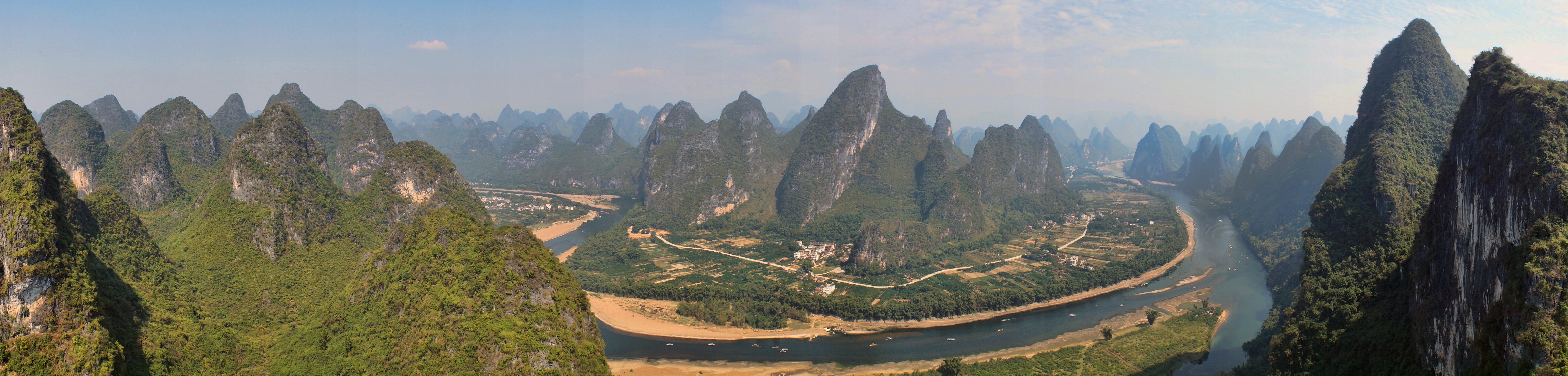 guilin yangshuo guangxi china fall autumn 2011 panorama karst